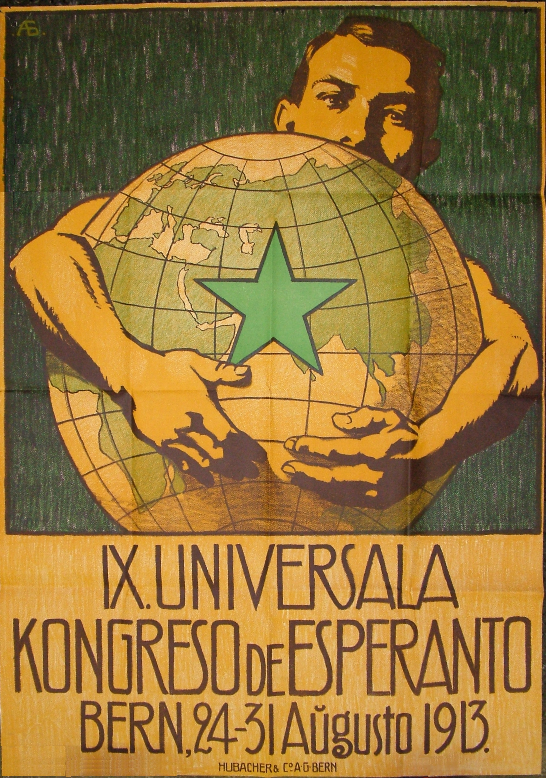 Poster of the World Esperanto Congress 1913 in Berne, Switzerland.